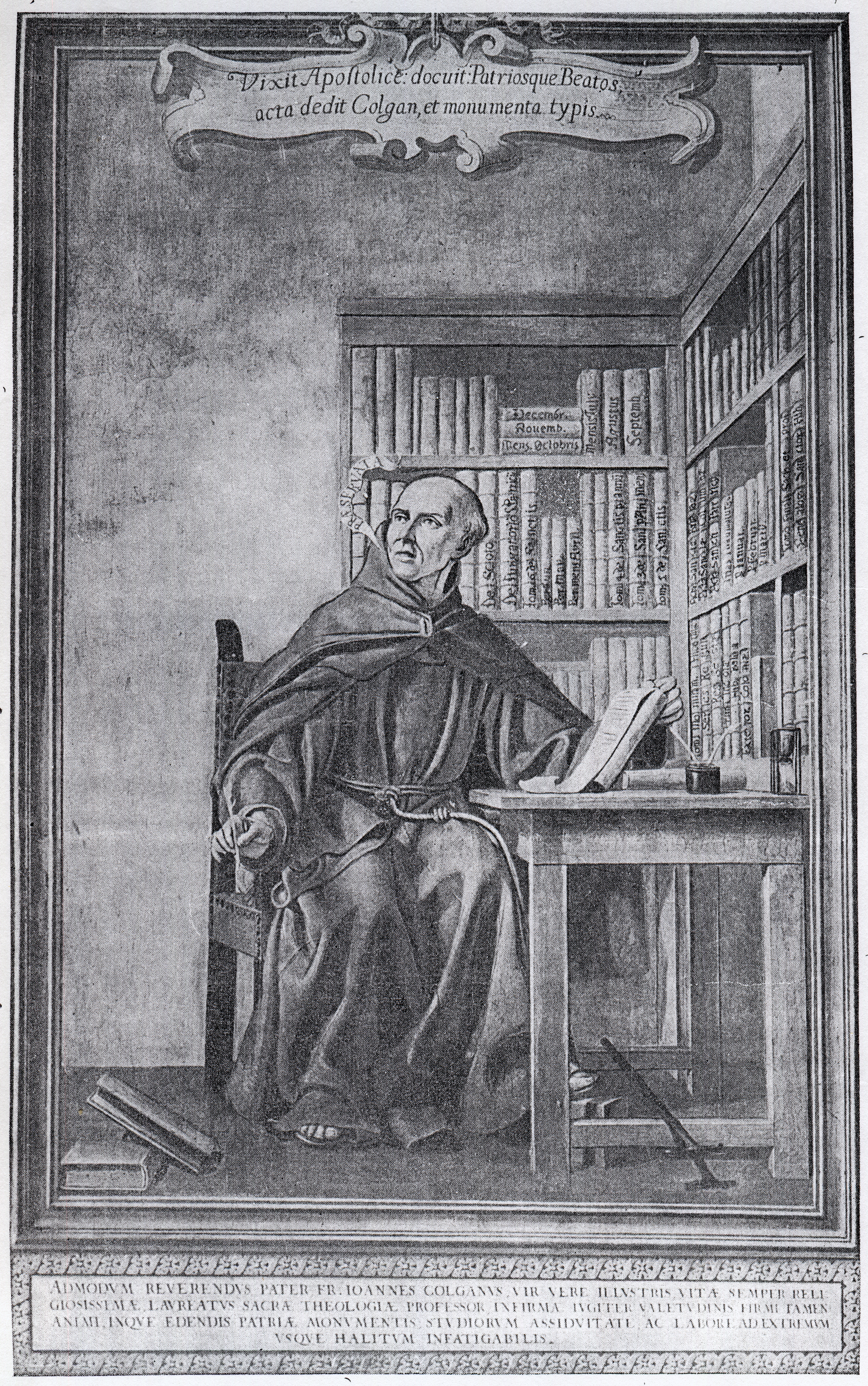 John Colgan (1592–1658) as depicted in the fresco by Fr. Emmanuel di Como in St. Isidore's College, Rome